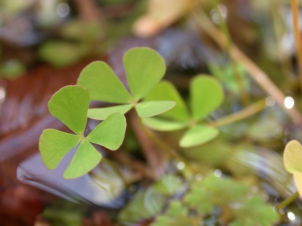 Name Marsilea quadrifolia L.)（デンジソウ） Family Marsileaceae (Pteridophyta) Date;2006,11;Tanabe city, Wakayama prefecture, Japan Author;Keisotyo